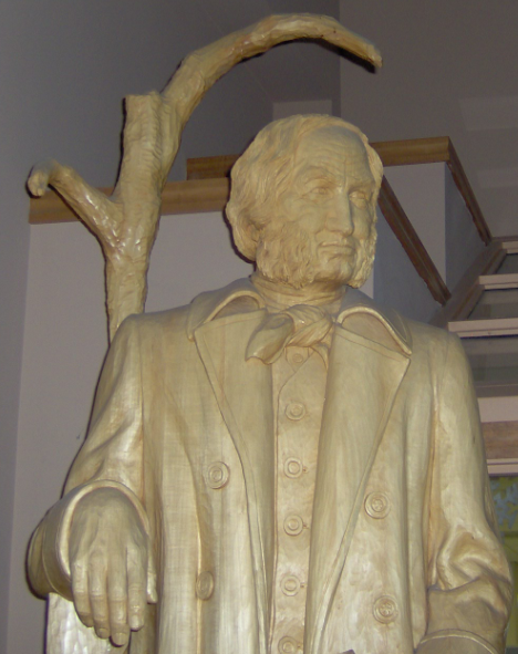 Wooden statue of a Thomas Ingersoll, located within Ingersoll Town Hall